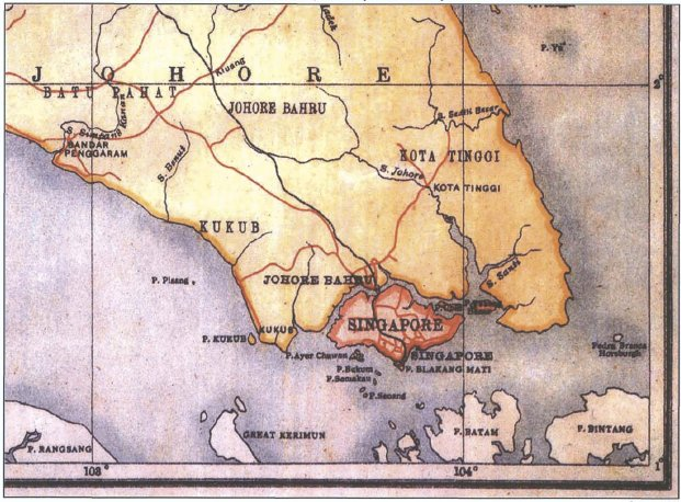 Detail of a map of Malaya (British Malaya) by the Surveyor General of the Federated Malay States and Straits Settlements, showing Singapore (part of the Straits Settlements) shaded in red and Johor (one of the Unfederated Malay States) in orange. The island of Pedra Branca appears on the right of the map marked "Pedra Branca Horsburgh". See Case Concerning Sovereignty over Pedra Branca/Pulau Batu Puteh, Middle Rocks and South Ledge (Malaysia/Singapore): Memorial of Malaysia, vol. 1, p. 143, para. 314.